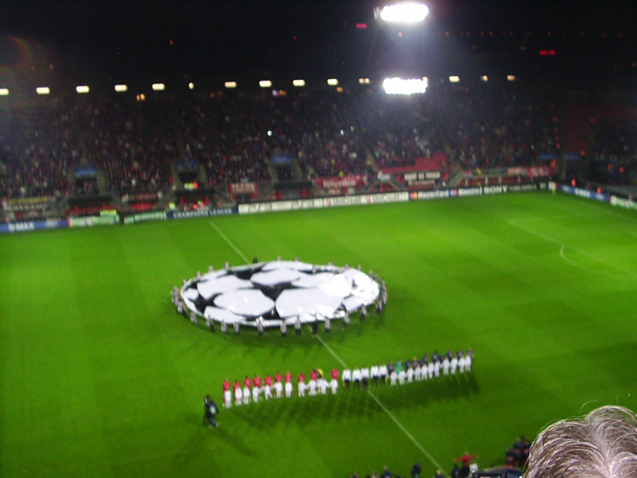 UEFA Chammpions League 2010/11: FC Twente - Internazionale